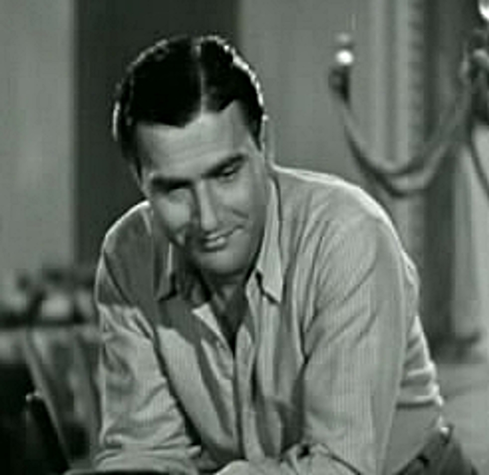 Movie screenshot of Artie Shaw from Second Chorusin 1940